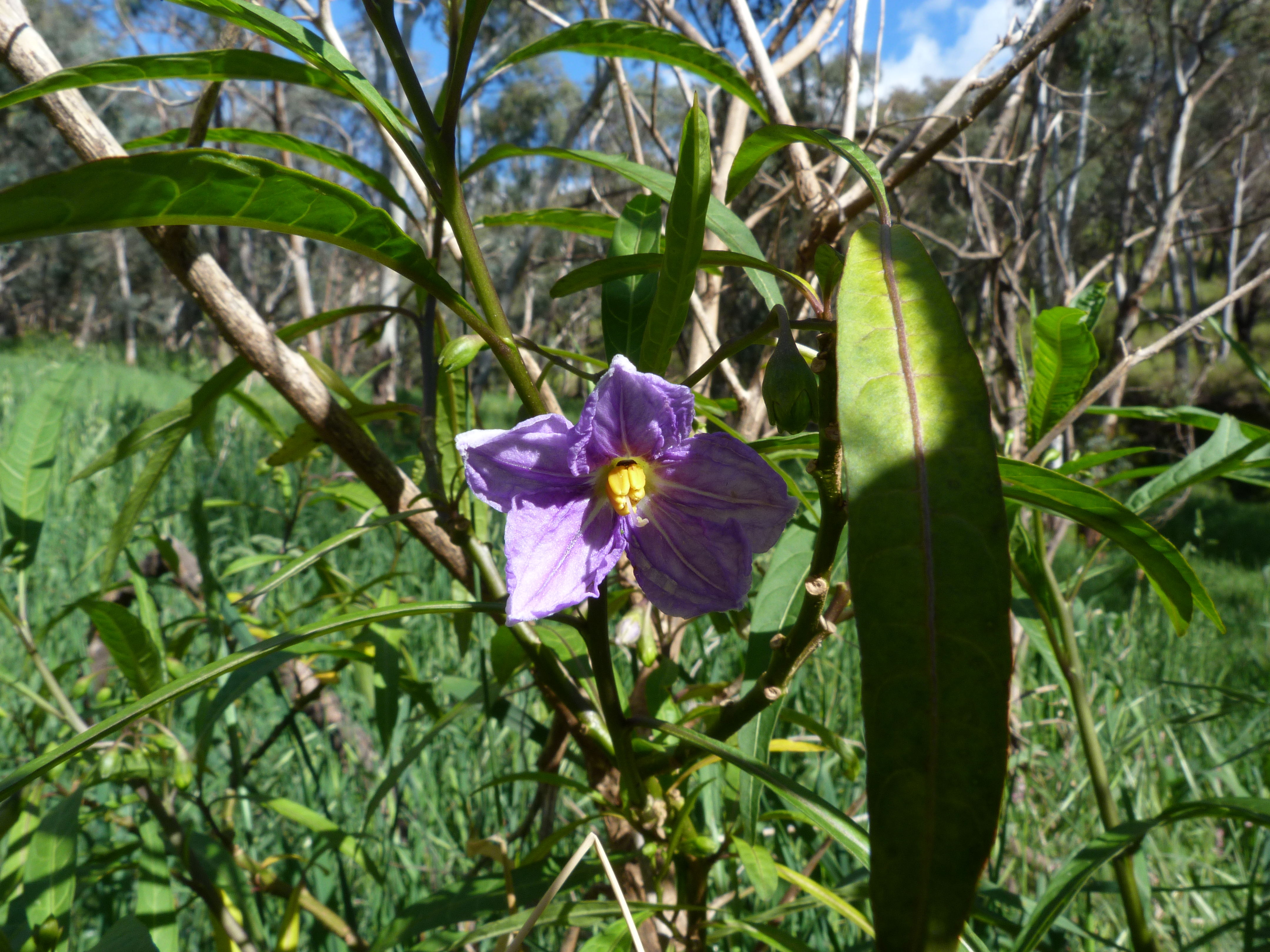 Solanum laciniatum Aiton, Black Mountain, Canberra, ACT, 3 November 2010